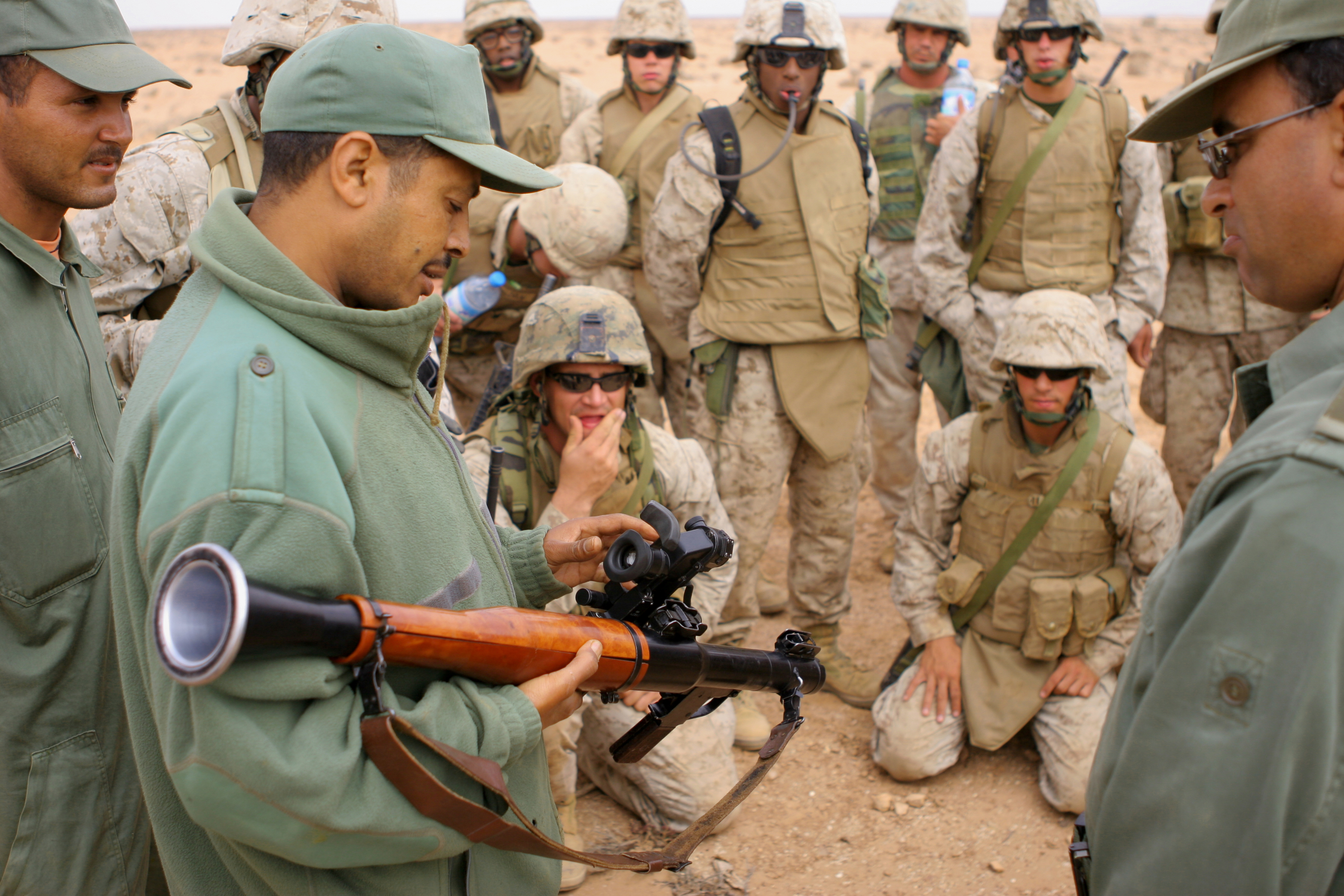 Marines from Weapons Company, 1st Battalion, 23rd Marine Regiment watch as Moroccan military members explain the capabilities of their RPG-7 on June 14, in the Cap Draa Training Area near Tan Tan, Morocco. The Marines and Moroccans exchanged knowledge of their weapons systems as part in African Lion 08, an annual training exercise promoting unit readiness and enhancing foreign relations.